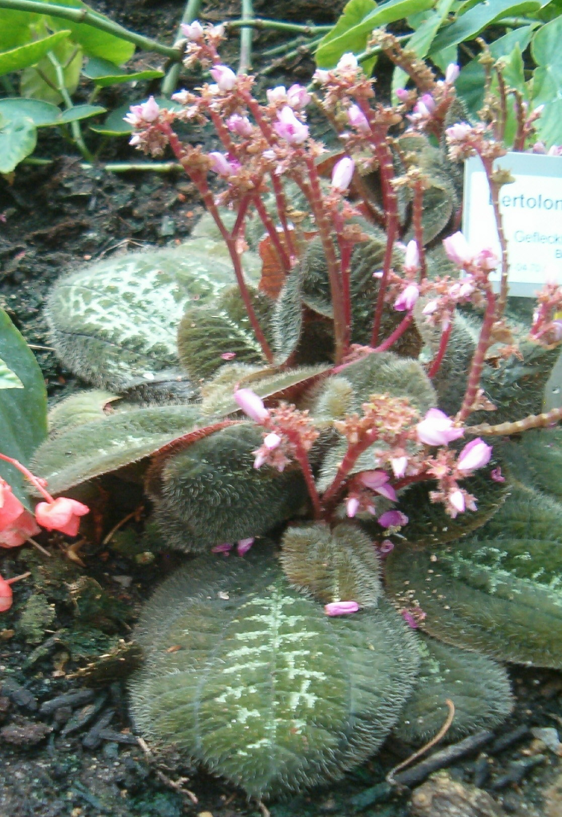 At Botanical Gardens Berlin-Dahlem Species Bertolonia maculata